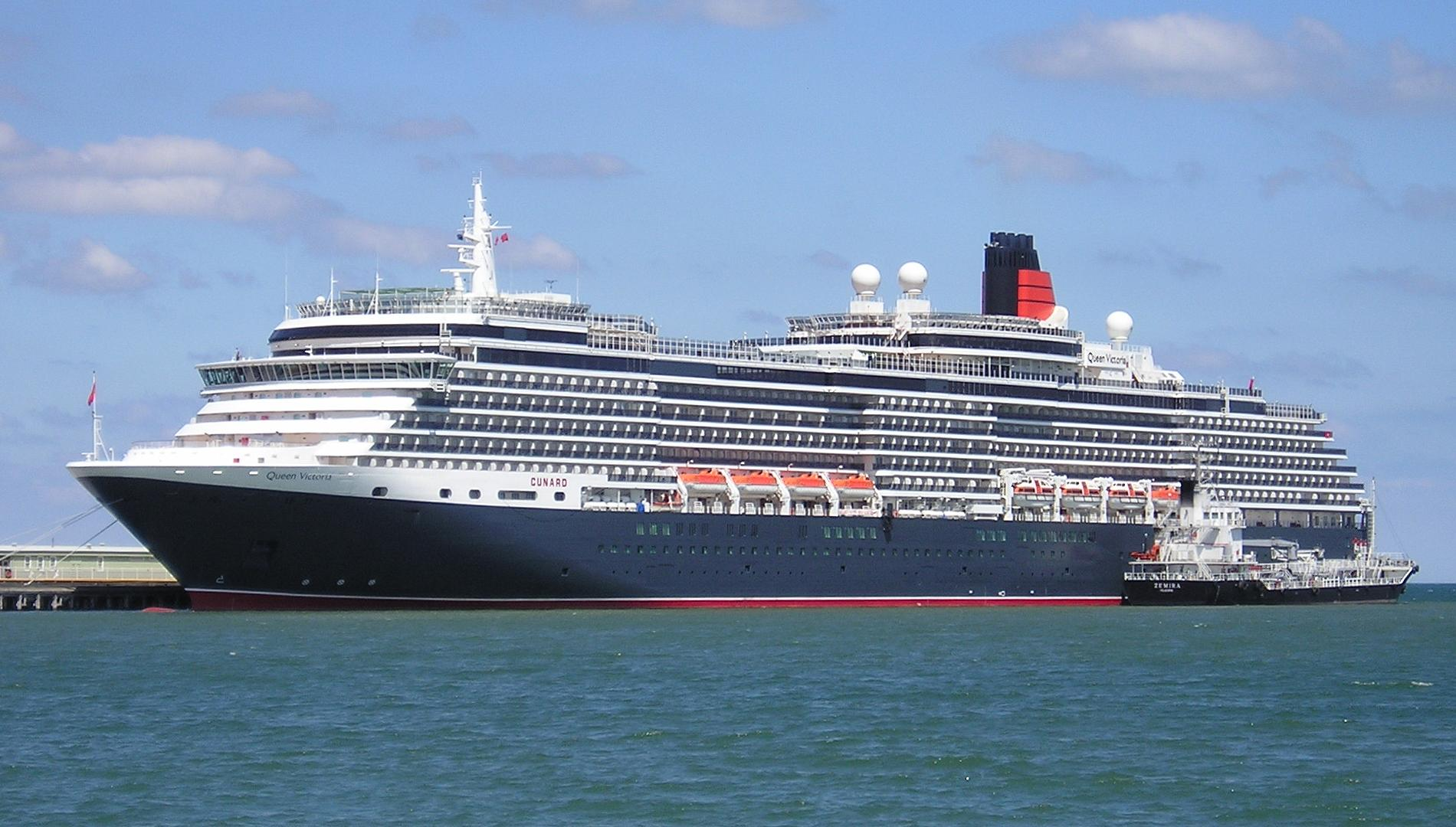 Cunard ship Queen Victoria at Station Pier Melbourne